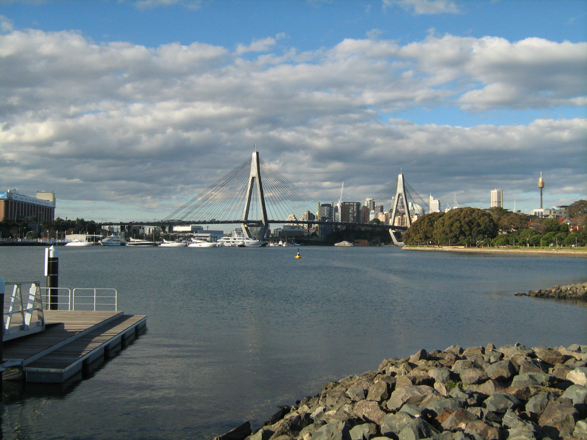 View of Rozelle Bay and the ANZAC Bridge from Federal Park, Annandale, NSW, Australia.